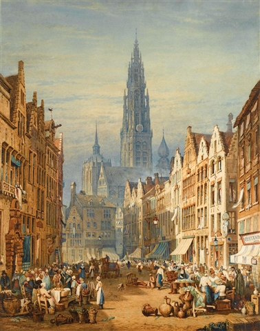 Antwerp, 1823, Watercolours